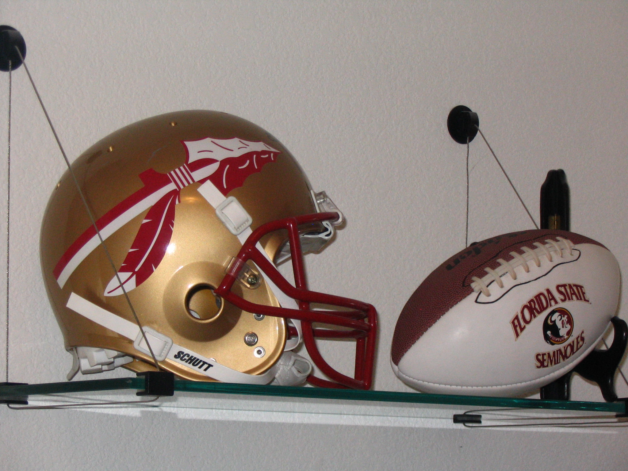 FSU Helmet